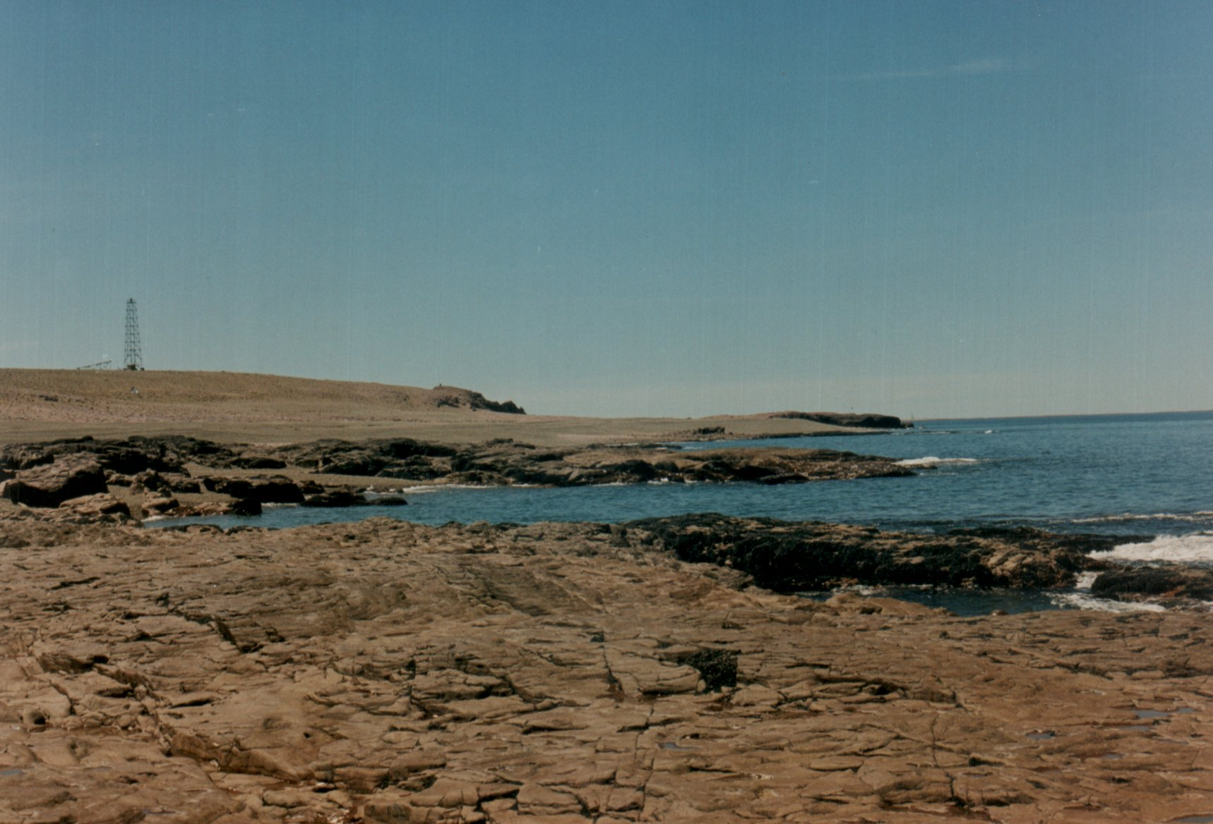 View from the south of Punta Mercedes (Mercedes Point) and Campana Lighthouse (january 1999)